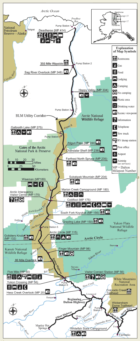 Map of Dalton Highway, Alaska